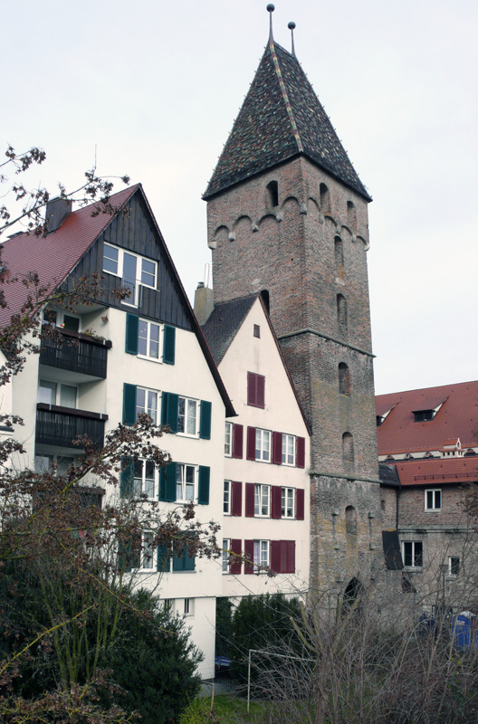 Old tower in Ulm (Germany)